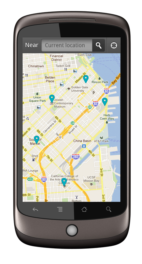 Wikipedia Android app